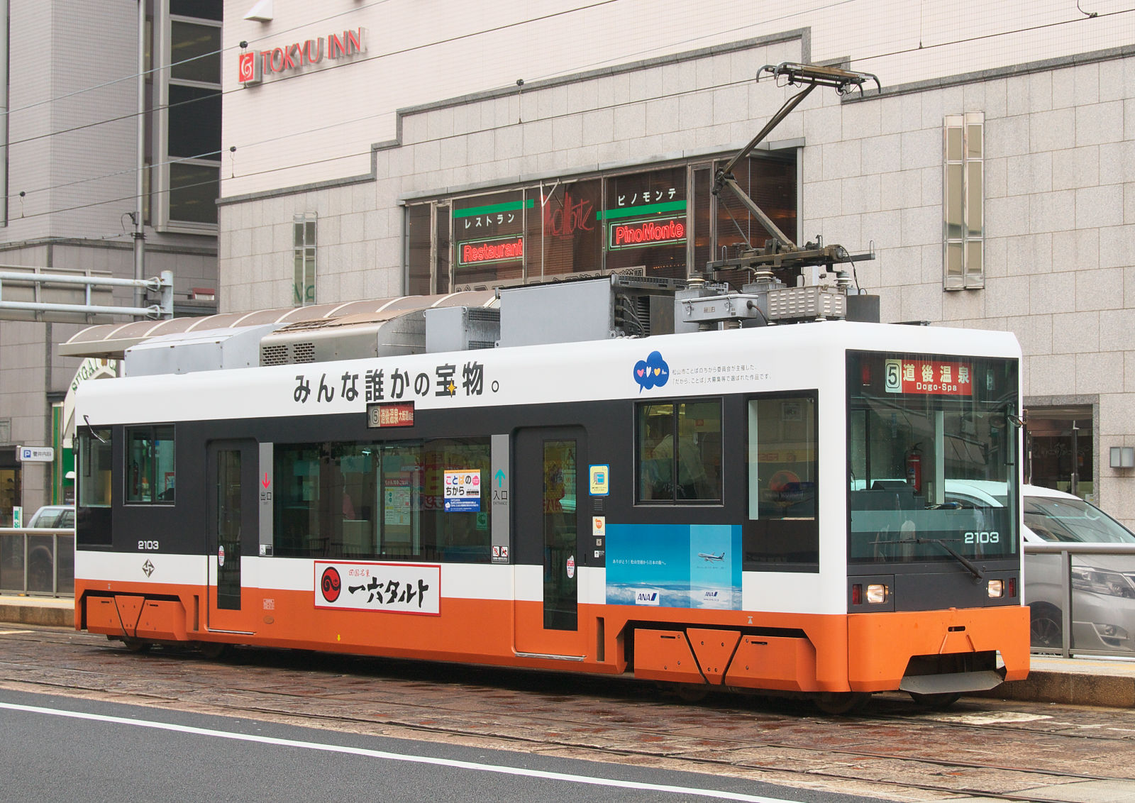 Iyo Railway Moha 2100 series tramcar (2103) at Okaido Station